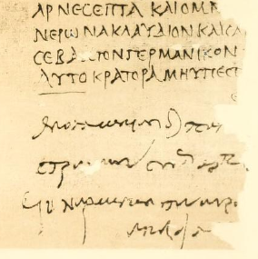 Detail of P. Oxy. 246 showing the cursive signatures at the bottom of the document.